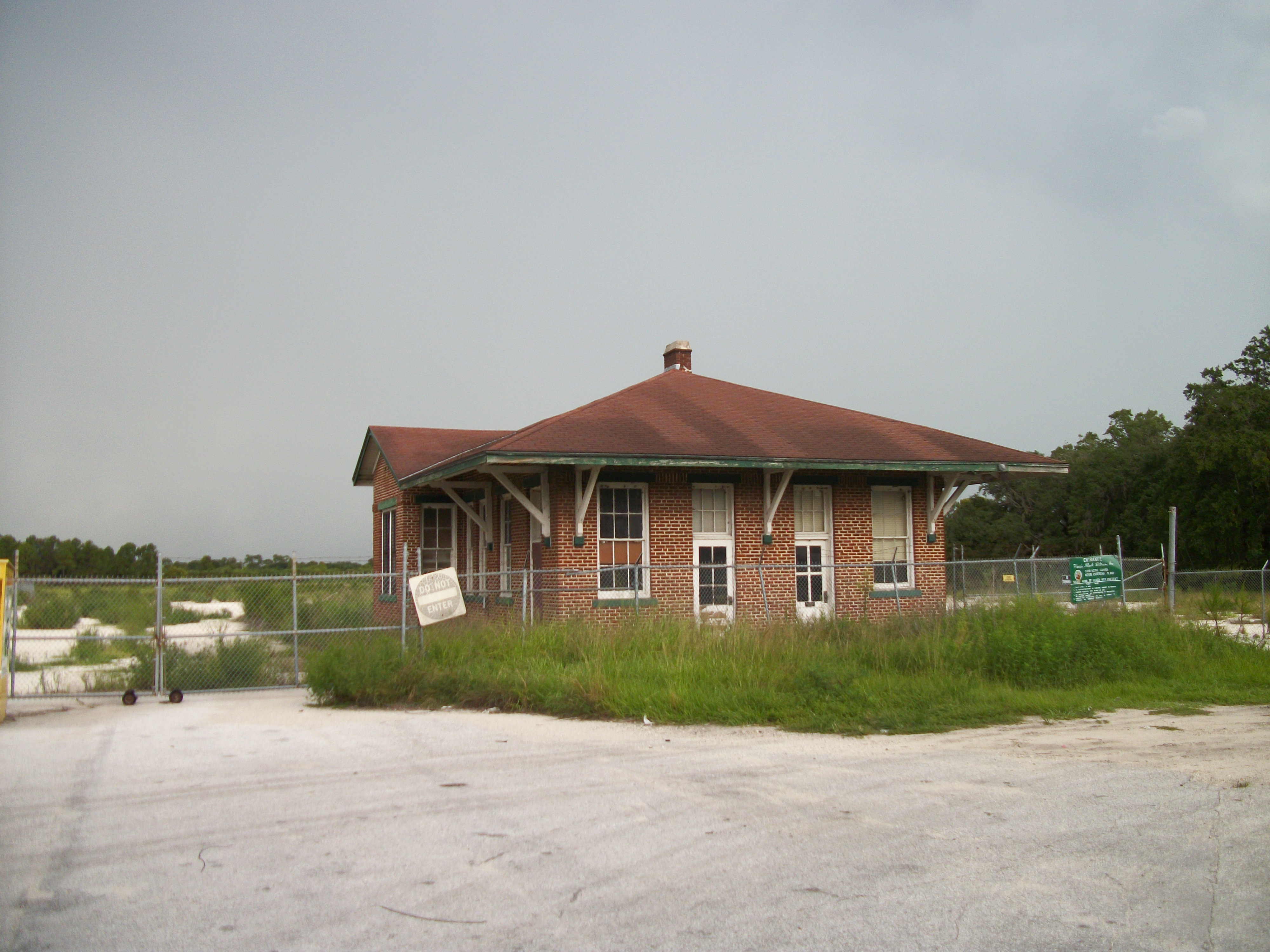 A former station run by the Atlantic Coast Line Railroad and later abandoned in Groveland, Florida on the former right-of-way of the Orange Belt Railway. This is on the northwest corner of Florida State Road 19 and westbound Florida State Road 50. Judging by one of the signs there it appears to have been transformed into an old Lake County facility of some kind, possibly a dump. I'll have to e-mail somebody in Groveland to find out.